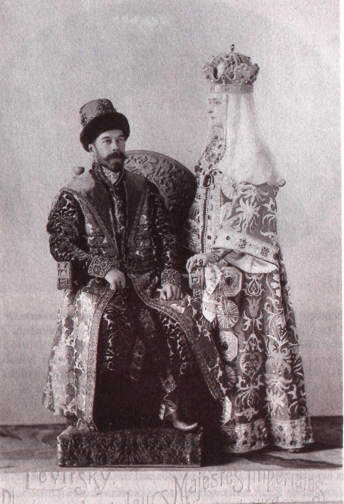 Nicholas II of Russia and Alexandra Fyodorovna (Alix of Hesse) in Russian dress